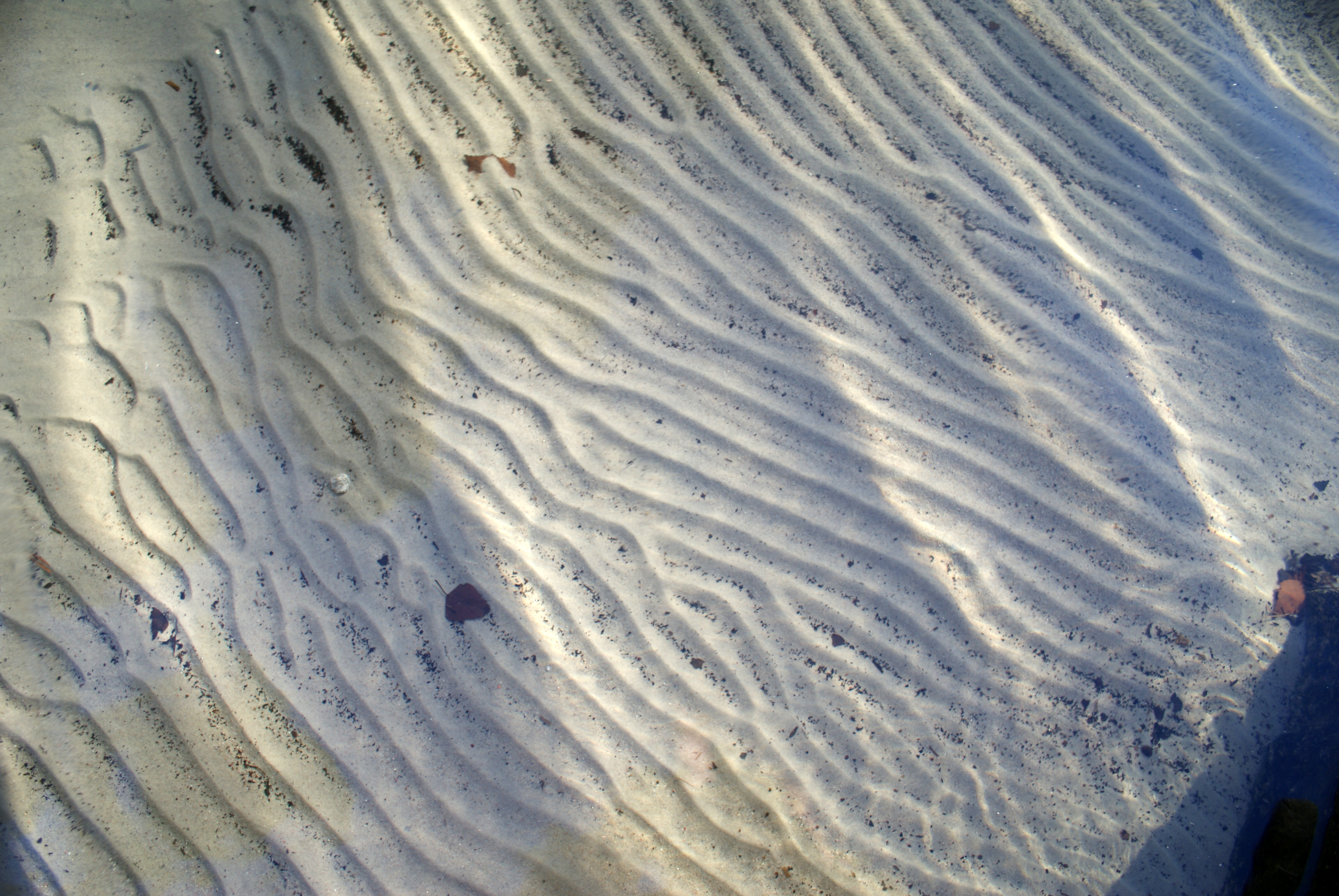 Ripple marks on the bed of the Lake Mukrz in Tleń, Poland.